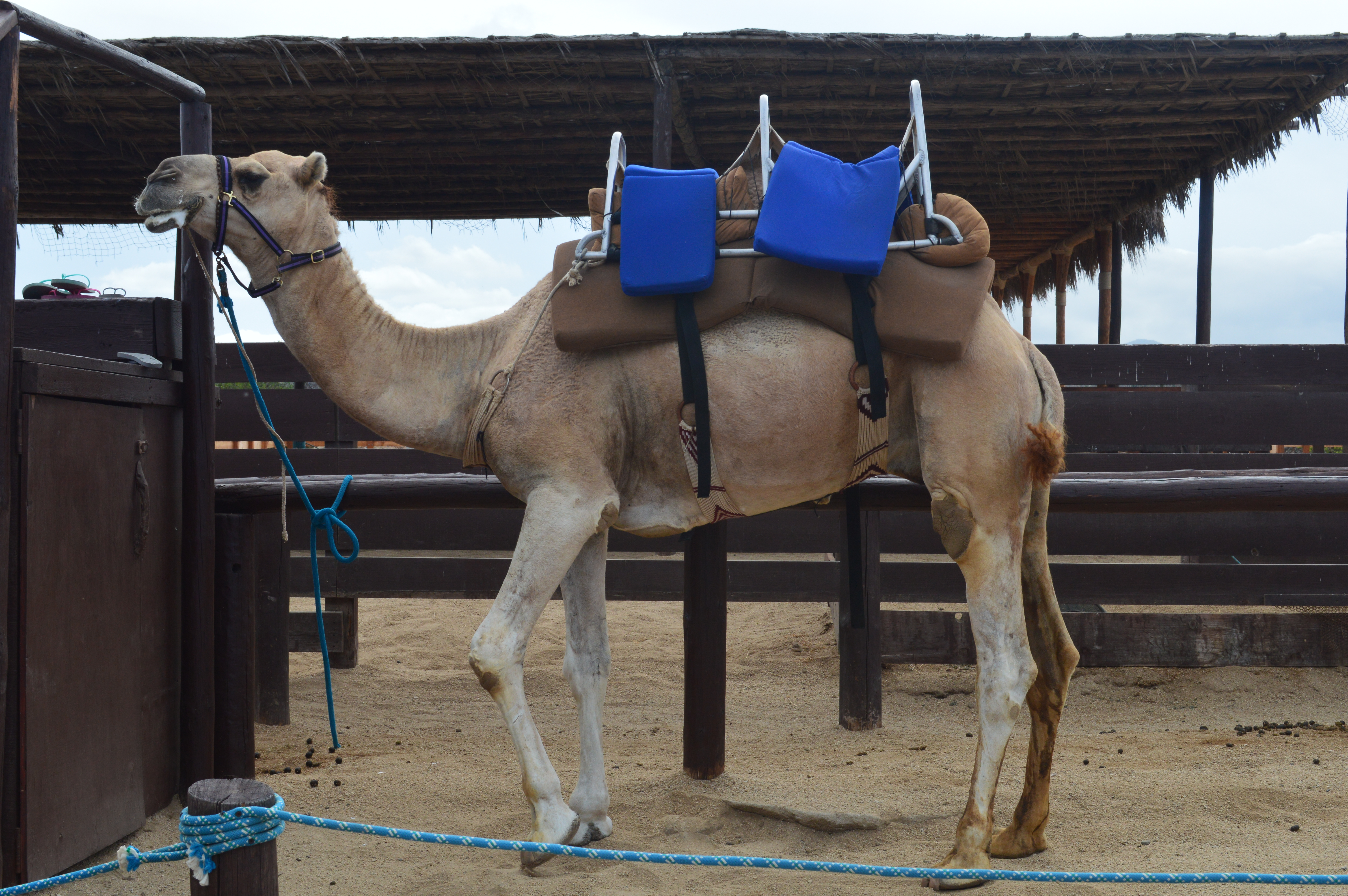 Camel at Rancho Punta San Cristobal, Los Cabos, Baja California Sur